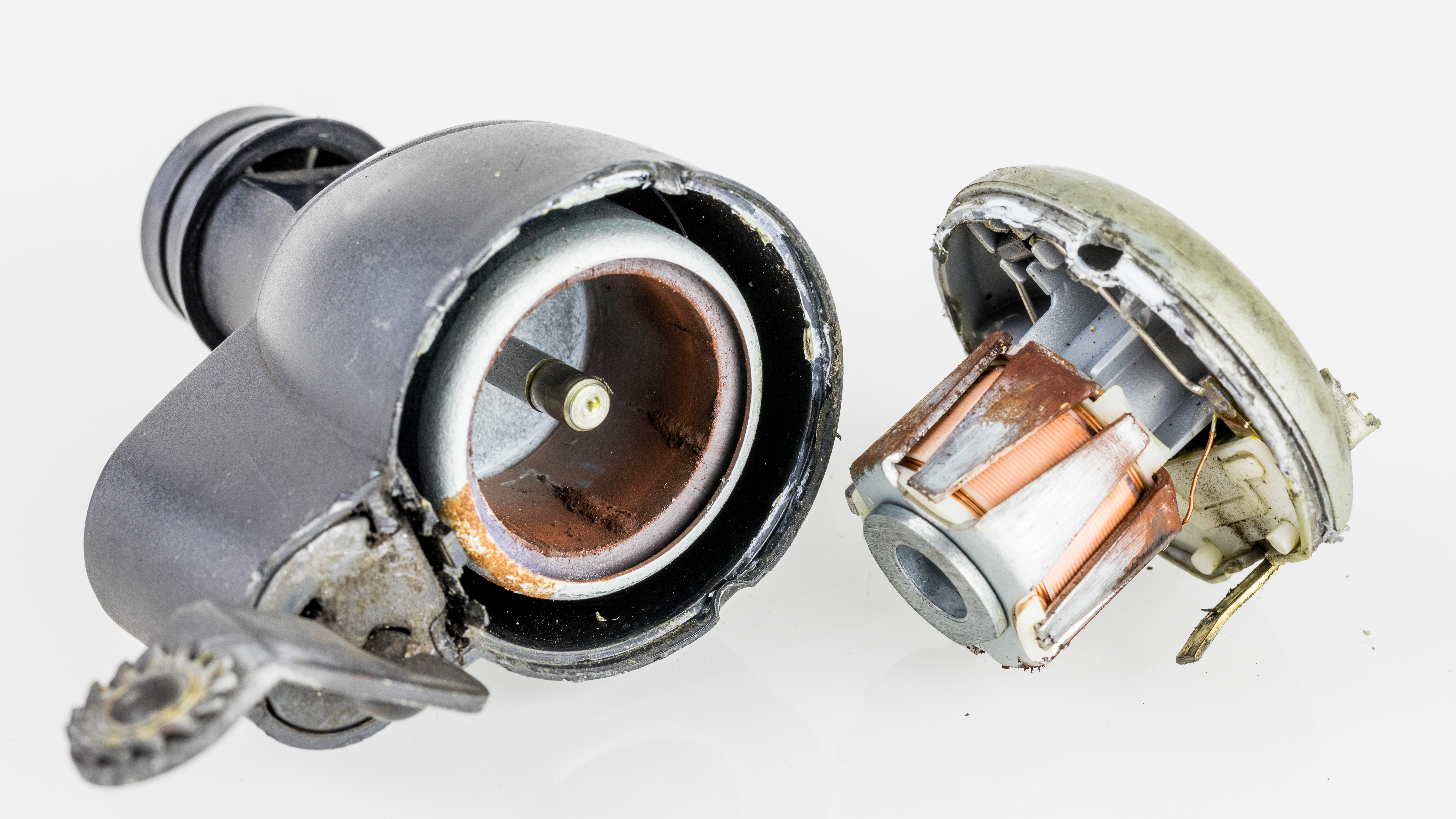 AXA HR Traction Power Control - Bicycle dynamo